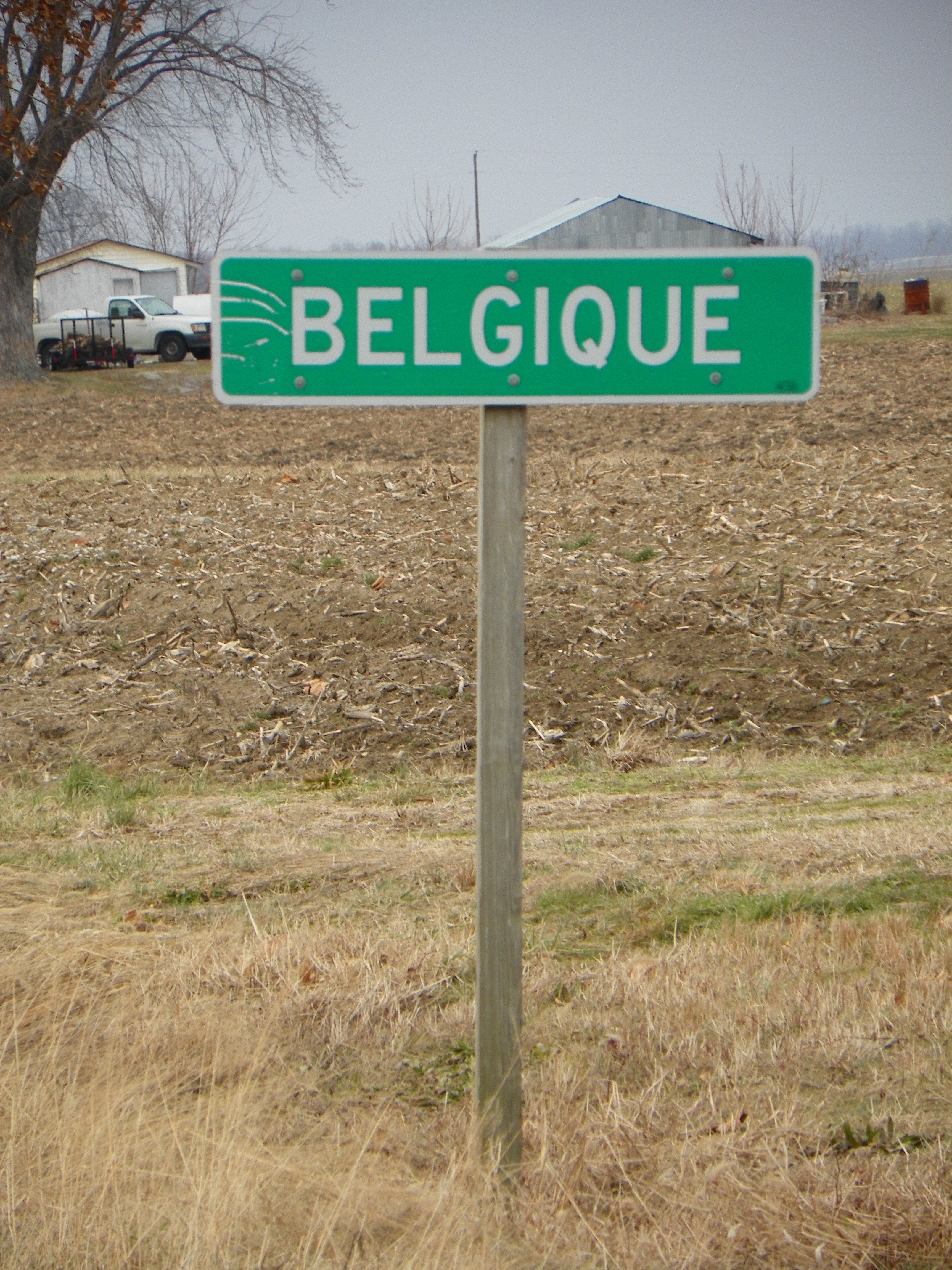 Belgique, Missouri, community sign